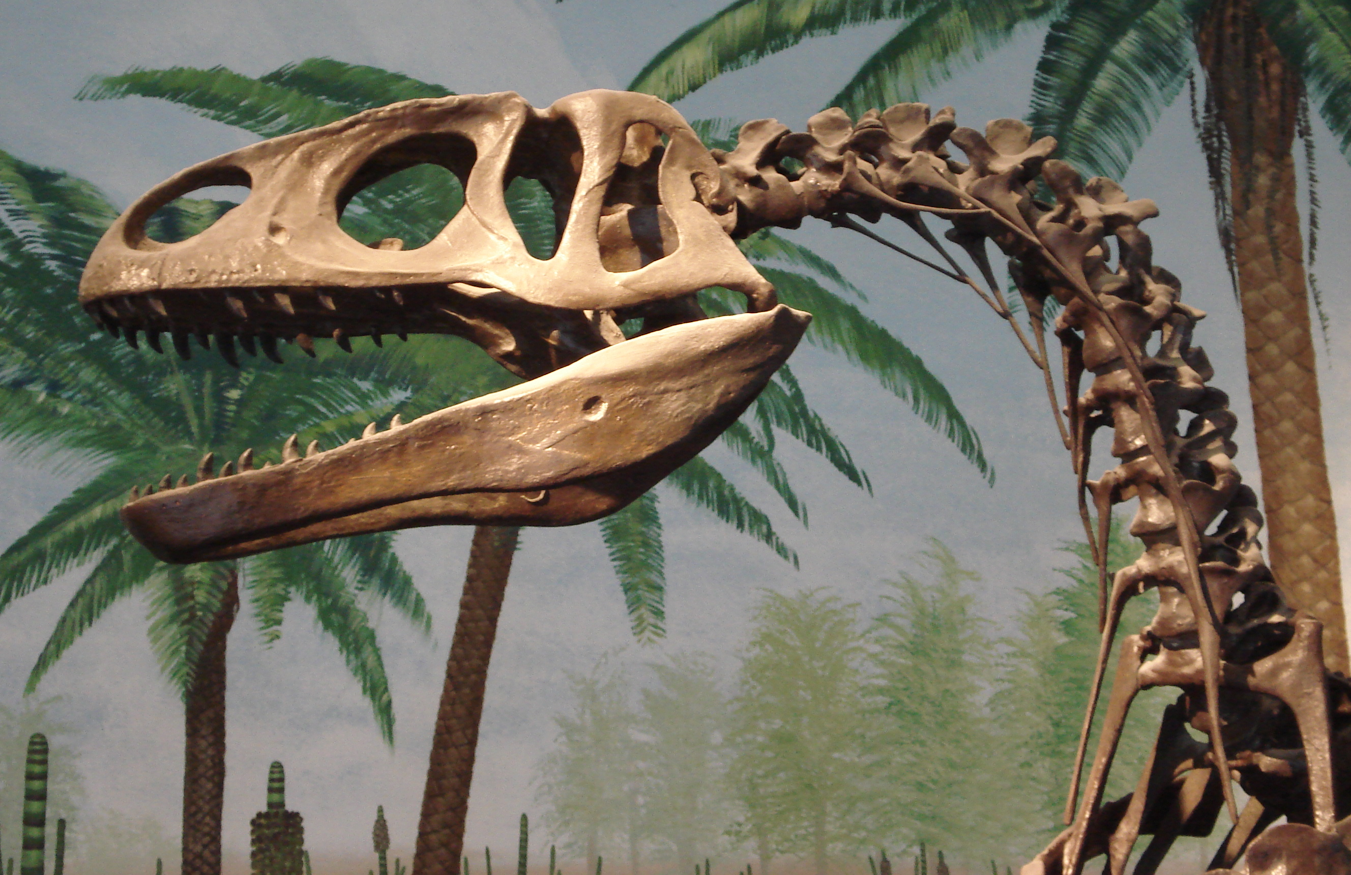 fossil of megalosaurus. The skull of Megalosaurus are not complete, an a good deal of it are restorated material.